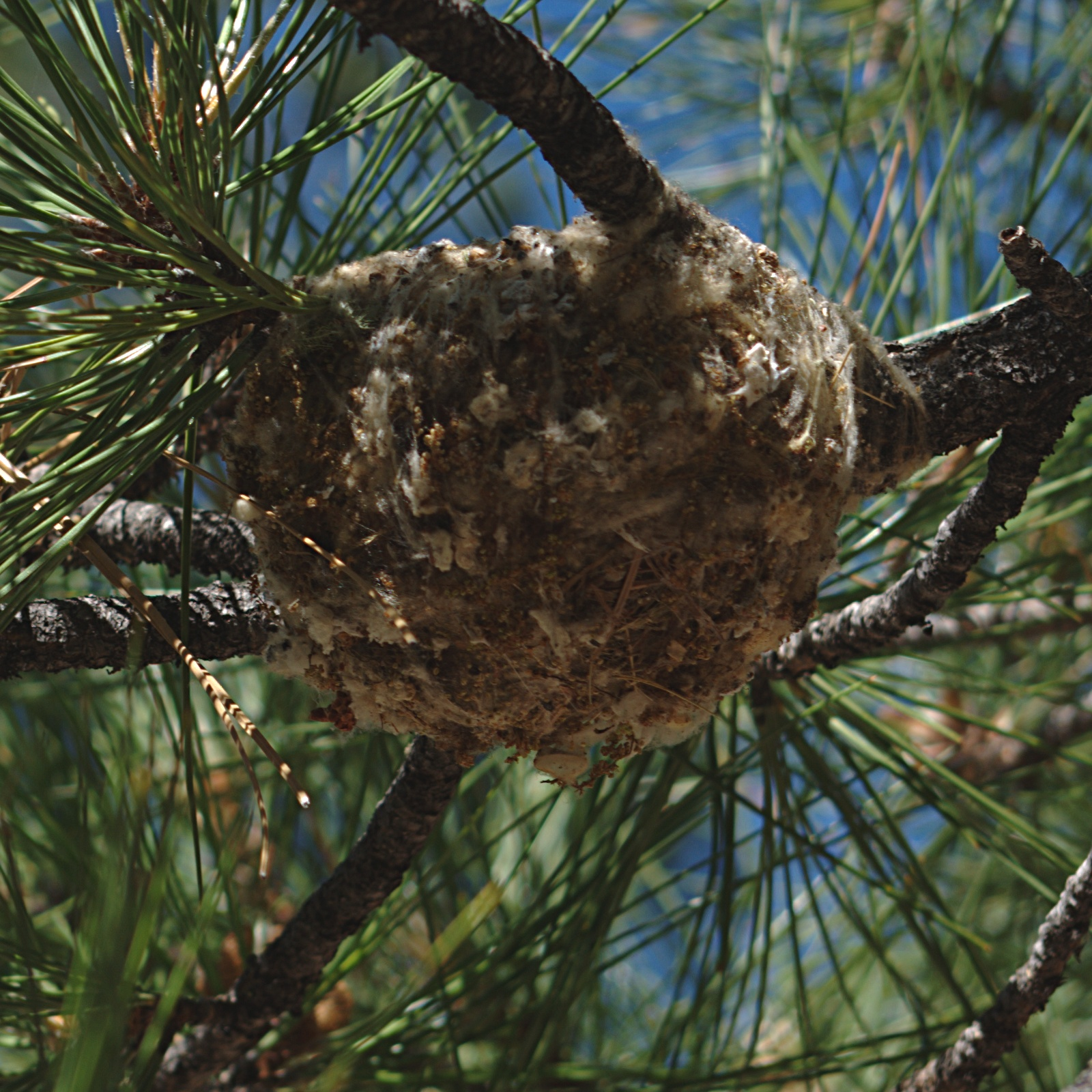 Nest of Plumbeous Vireo, Vireo plumbeus, Upper Crossing Trail, Bandelier National Monument